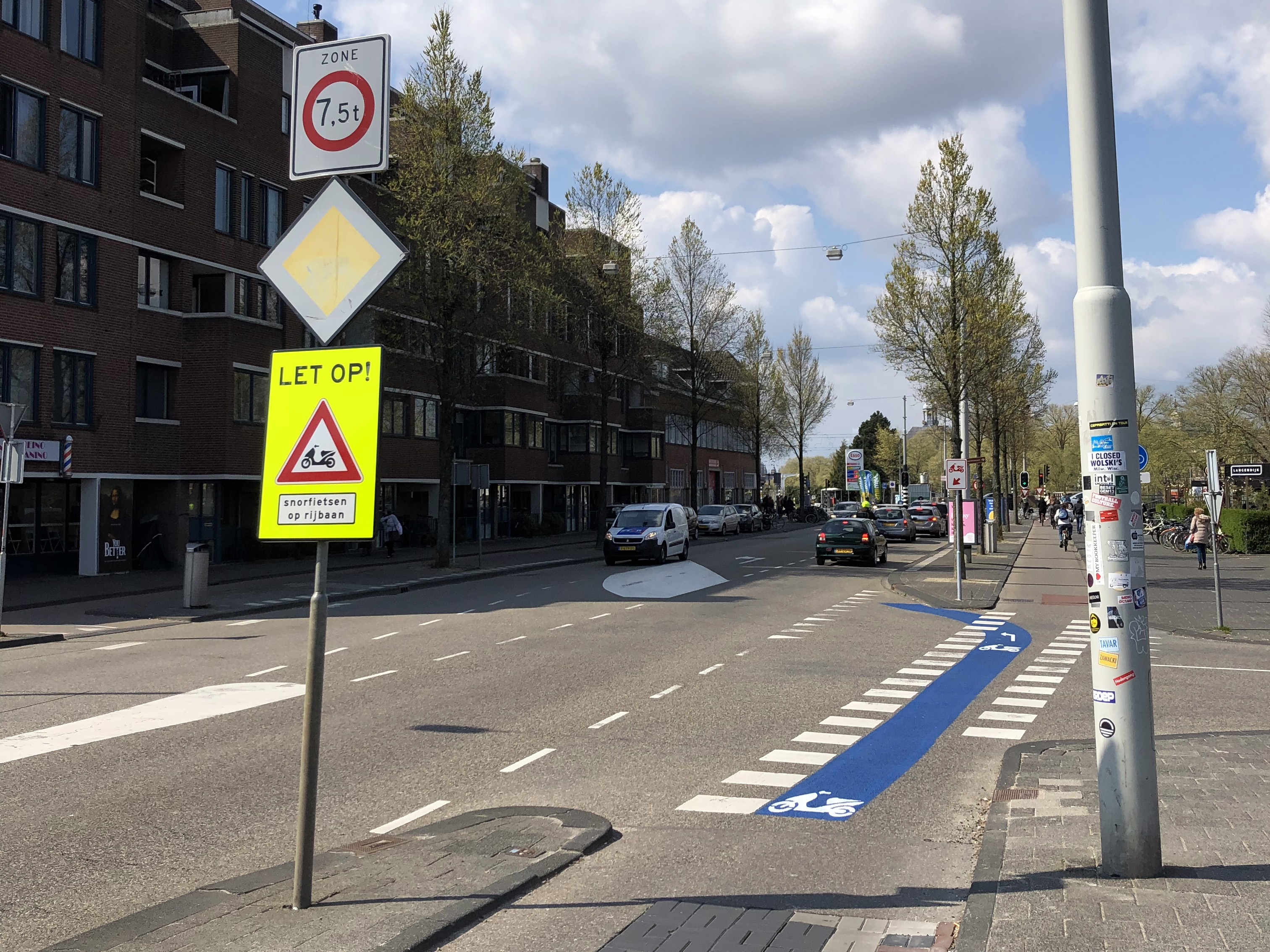 Temporary blue road marking for moped riders to go to the road on Zeeburgerstraat in Amsterdam, at the intersection with the Zeeburgerpad, just after the new traffic situation came into effect on 8 April 2019.